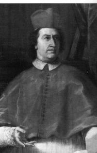 Cardinal Albani (future Pope Clement XI)